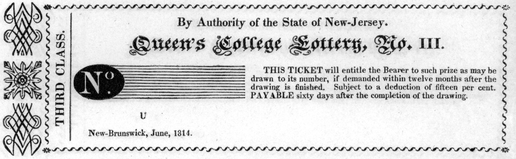 Lottery ticket to raise money for Queen's College (now Rutgers University), New-Brunswick, New Jersey, USA